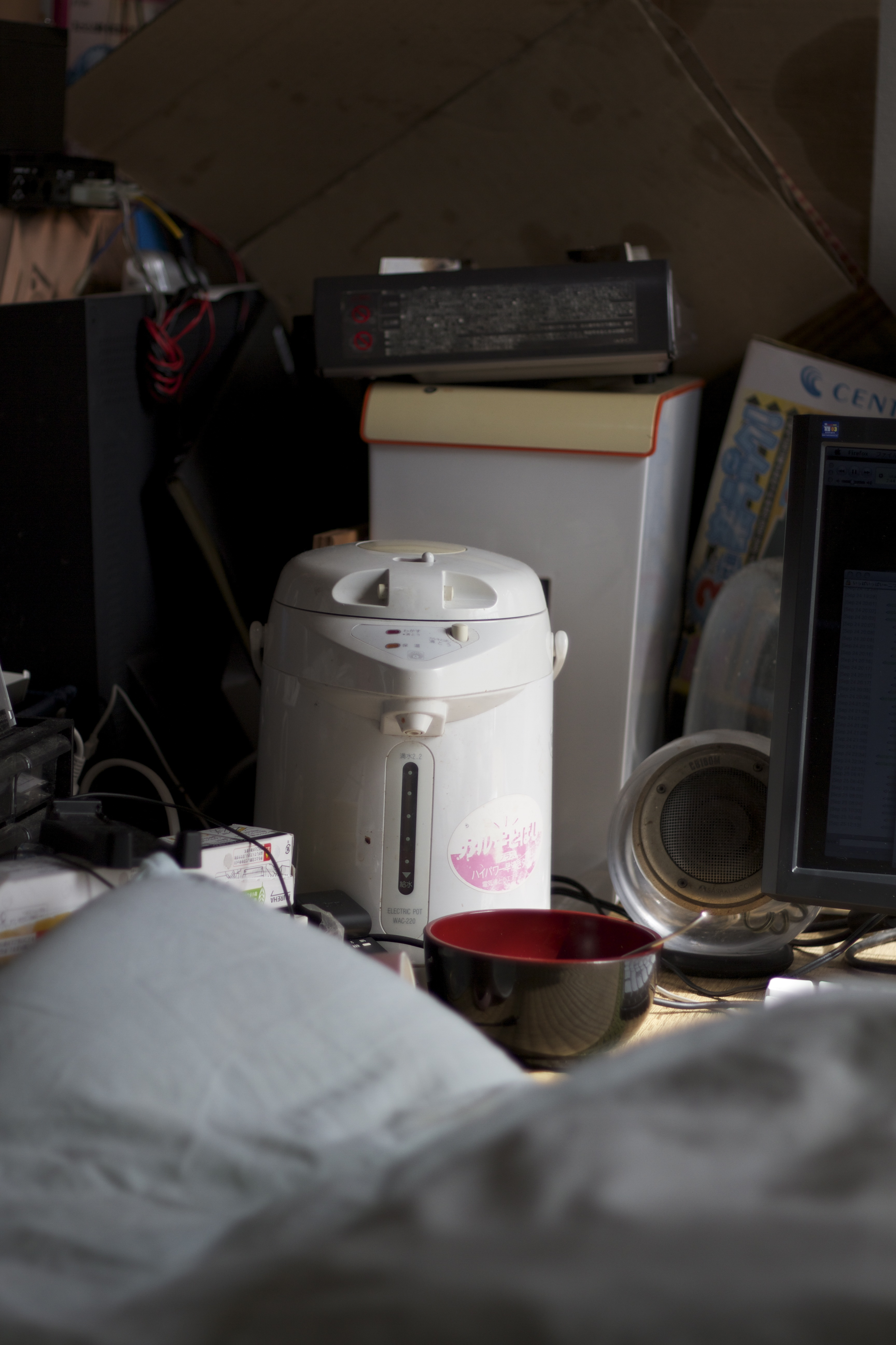 Disorder in a japanese room